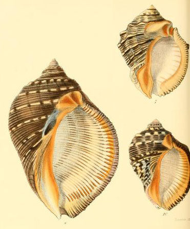 Genus Purpura, Plate II. 7. Purpura bufo 8. Purpura persica 10. Purpura rudolphi (synonym of Purpura persica)[1]